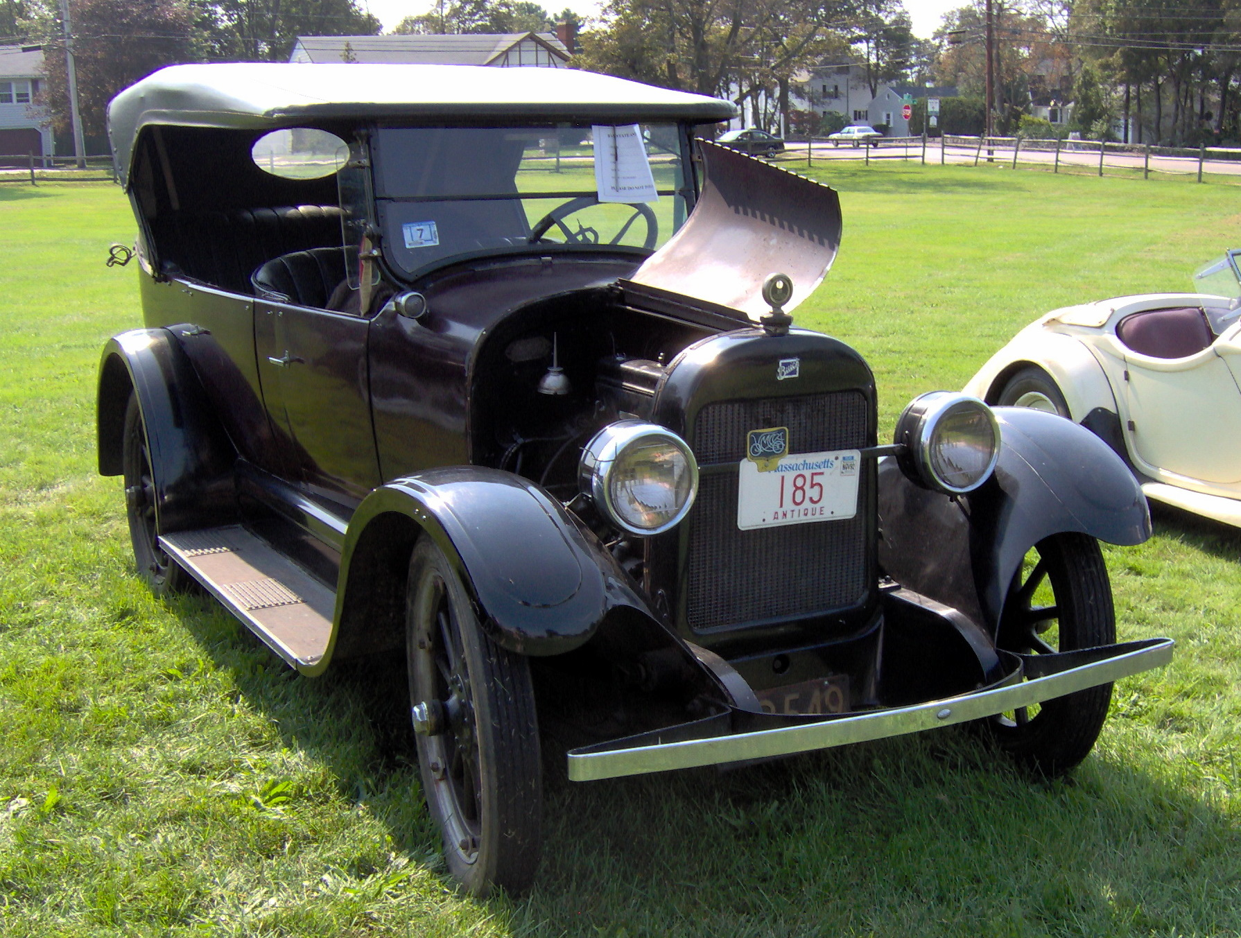 1922 Buick Model 22-34 touring car